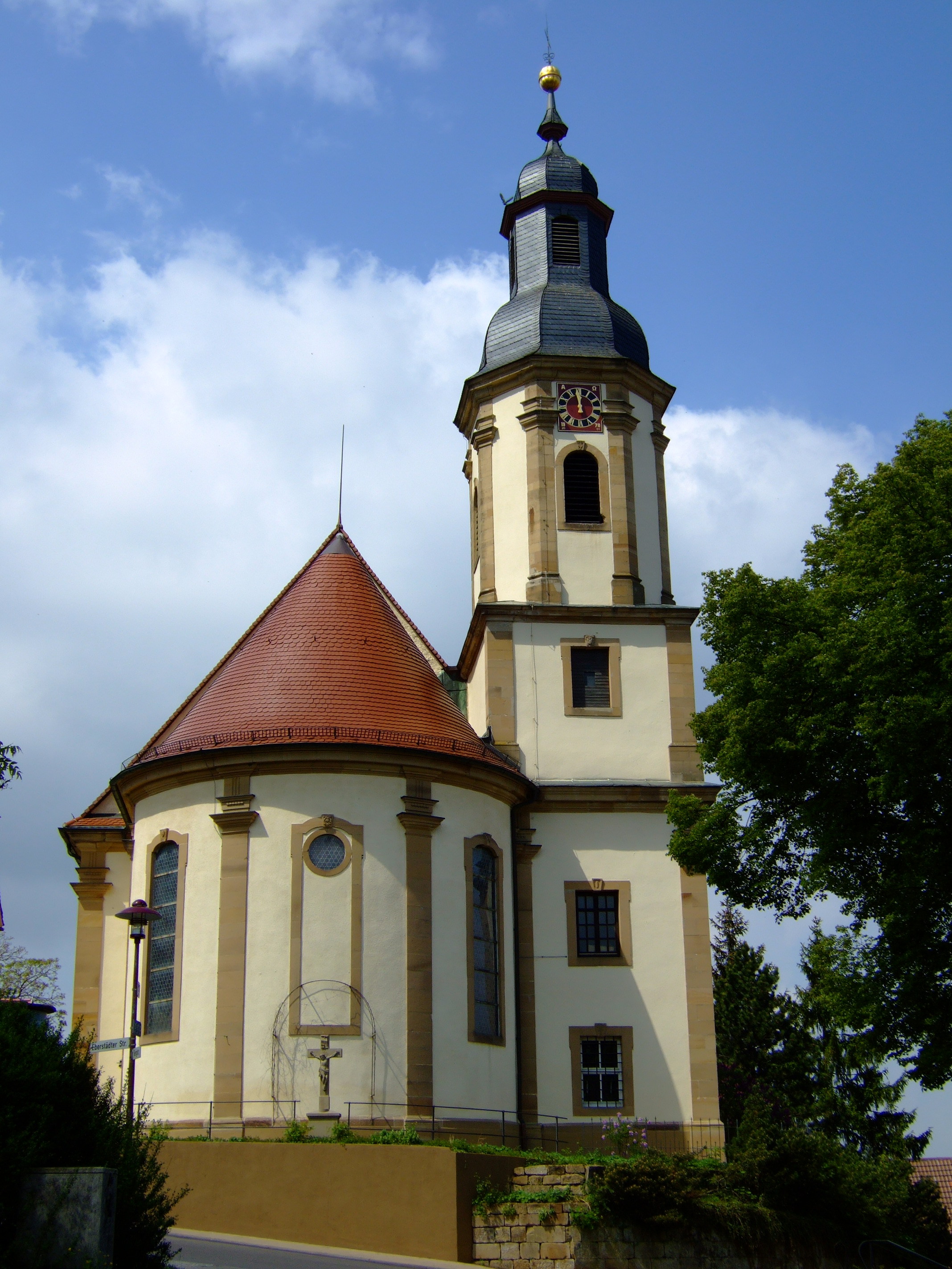 Old Church "St. Remigius" with vicarage of the Village Neckarsulm-Dahenfeld (built: 1748) view from East